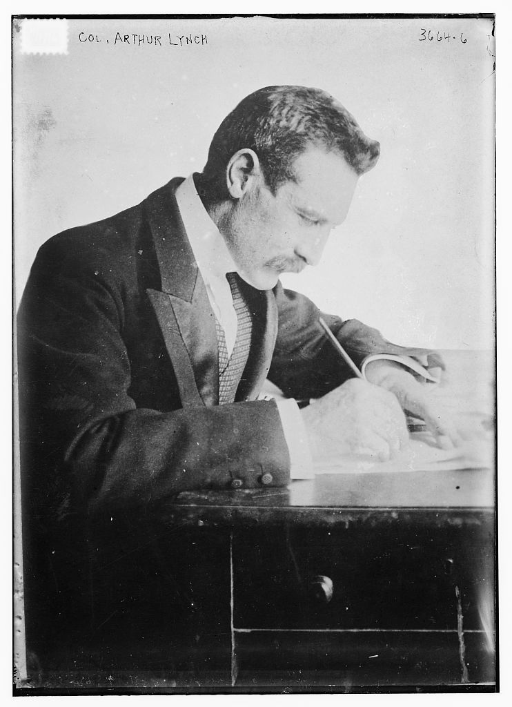 Arthur Alfred Lynch in 1915